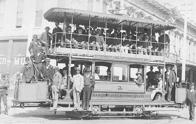 Double-decker San Diego Electric Railway, 5th & Market, Sept 21, 1892.